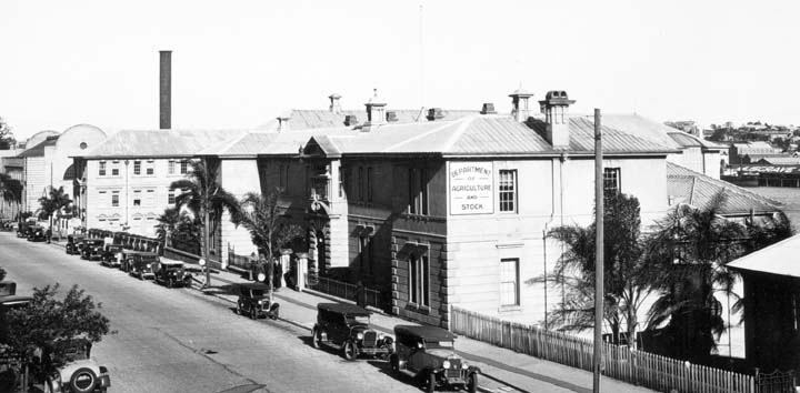 Former Department of Primary Industries Building, William Street, Brisbane. (This building is also known as the Immigration Depot and the Department of Agriculture.)